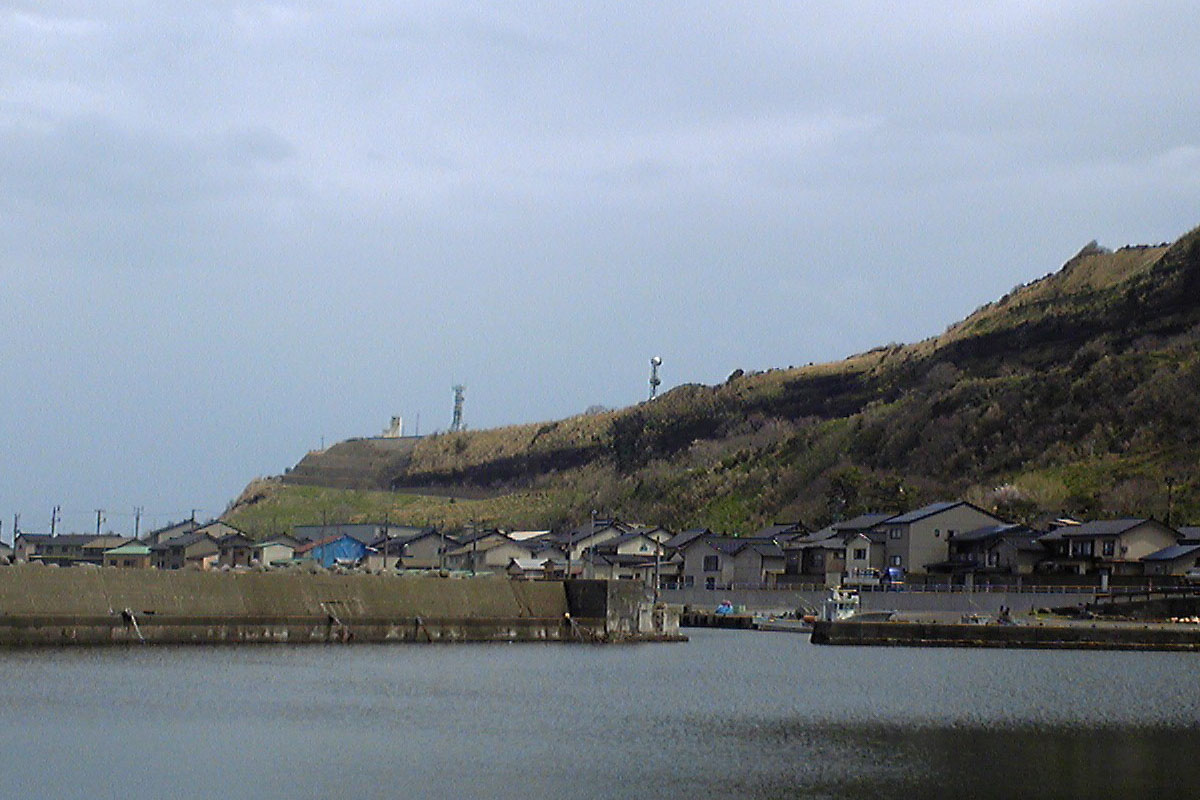 'Nadachikuzure'. Landslide of Nadachi Town in Niigata, Japan.